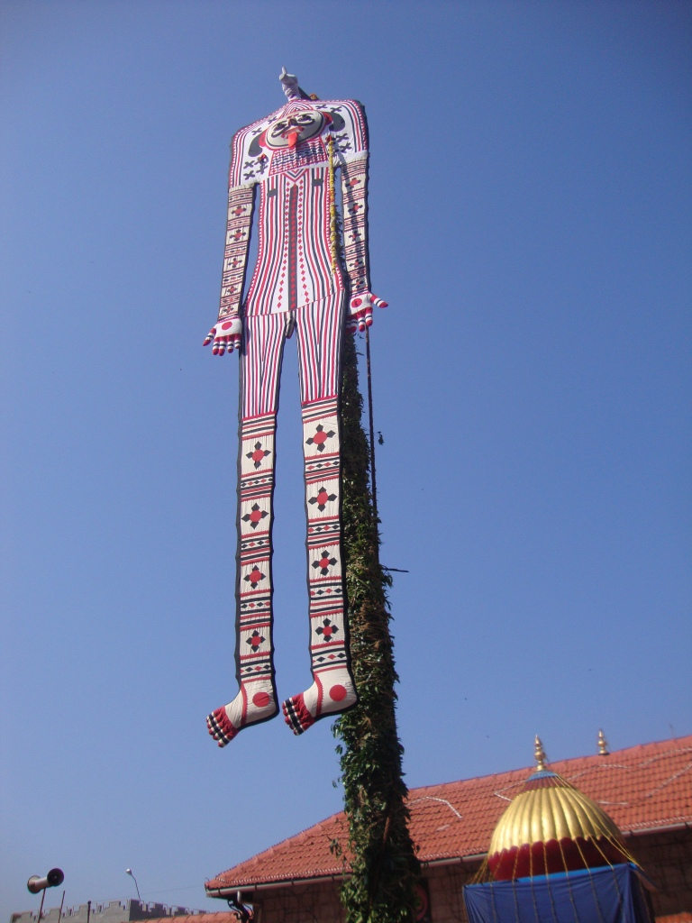 Kadri Manjunath Temple, During Ratotsava